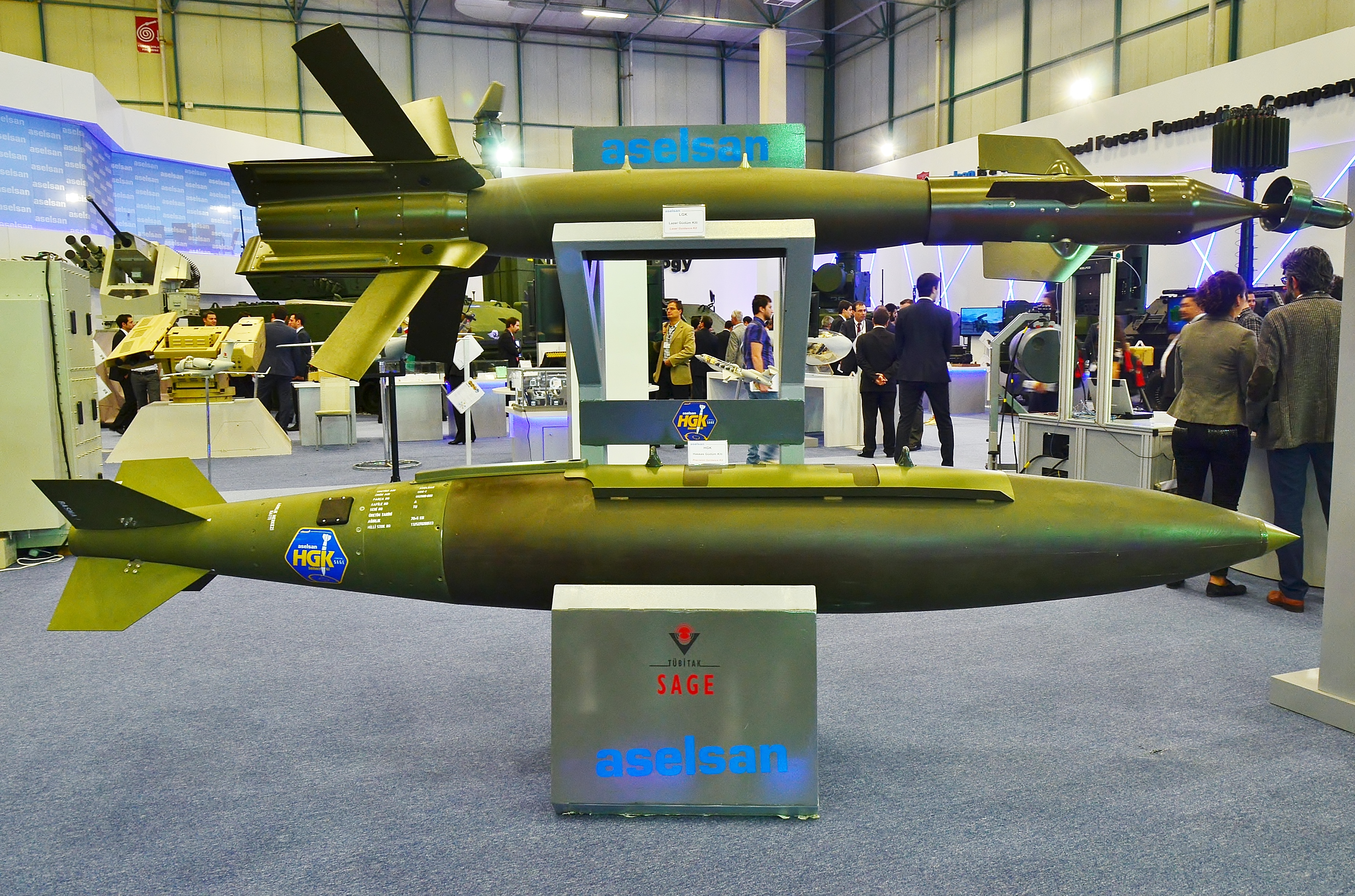 Precicison guidance kit HGK of TÜBİTAK SAGE and Aselsan at IDEF 2015